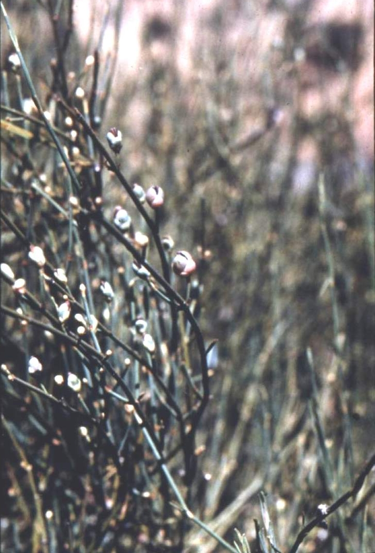 Ephedra chilensis, female. Central Chile